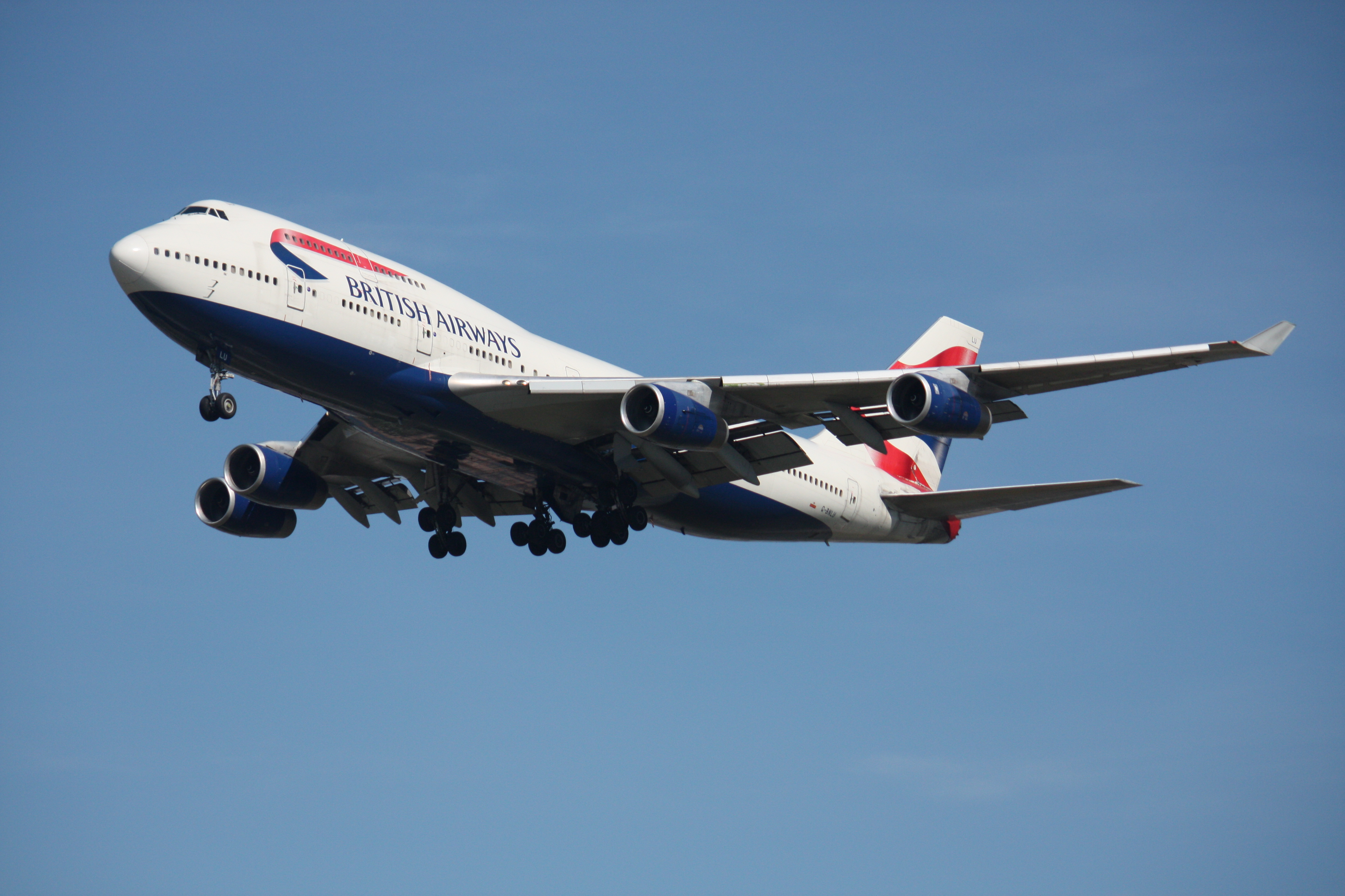 A British Airways Boeing 747-438 landing at Vancouver International Airport